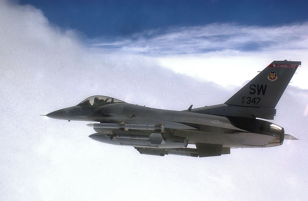 An F-16 from the 77th Fighter Squadron in flight